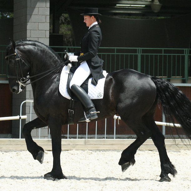 Natasha Althoff on her Friesian stallion Ebony Park Abe during a Grand Prix test at Boneo Park Equestrian Centre